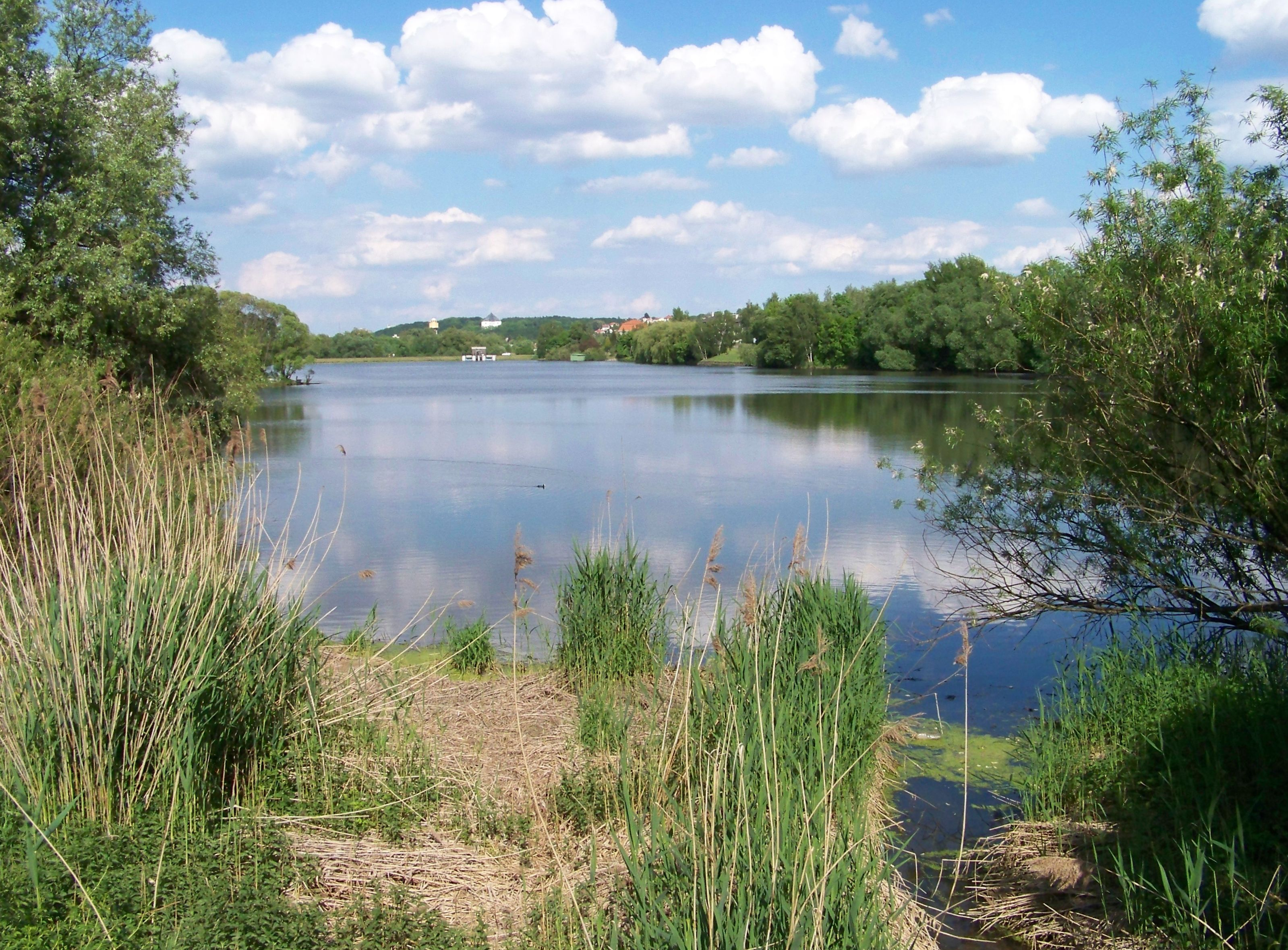 Prague-Ruzyně, the Czech Republic. Jiviny Reservoir.